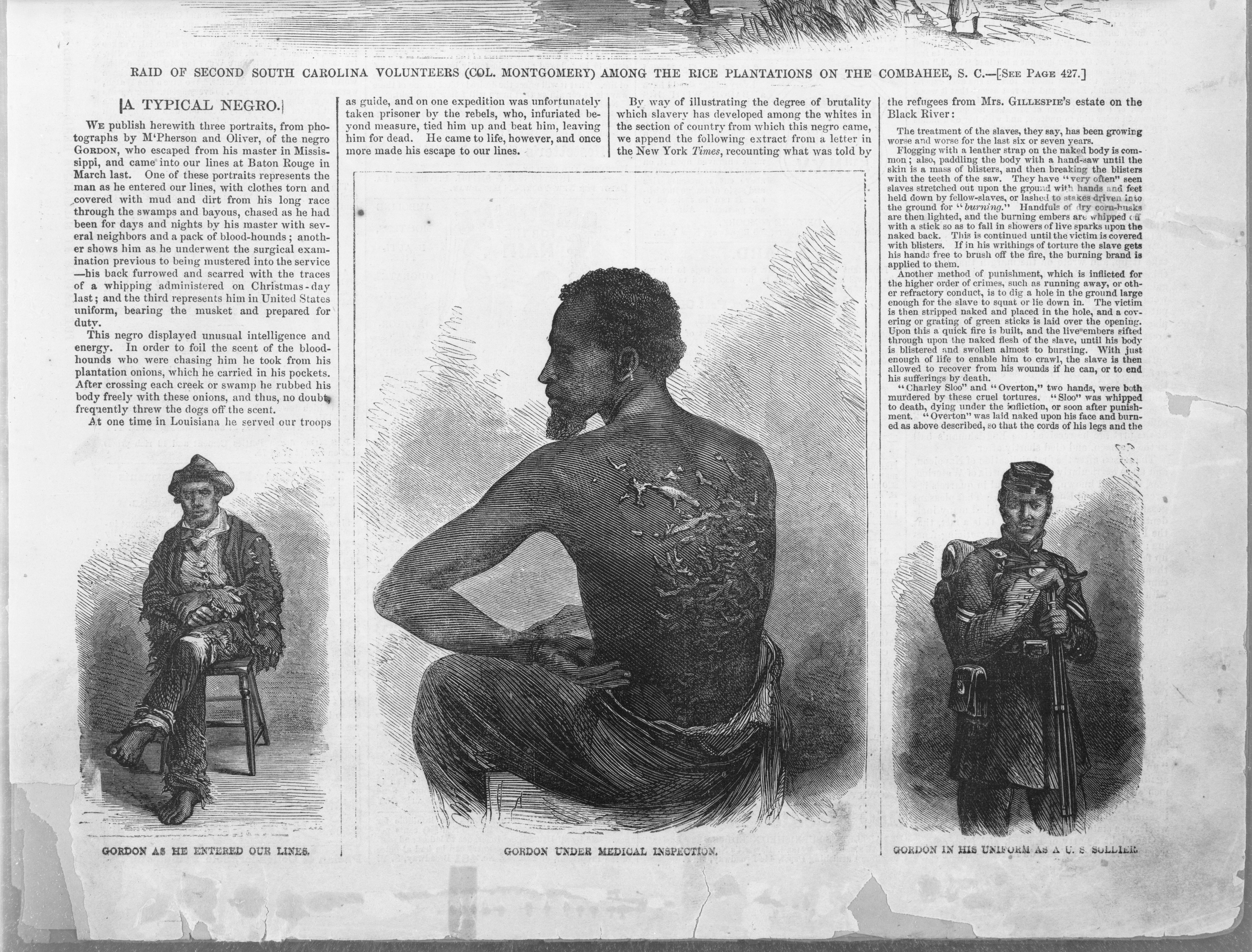 Bottom half of a page from Harper's Weekly magazine, July 4, 1863.